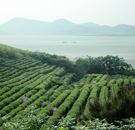 Bi Luochun place of Origin- Dong Ting Lake.